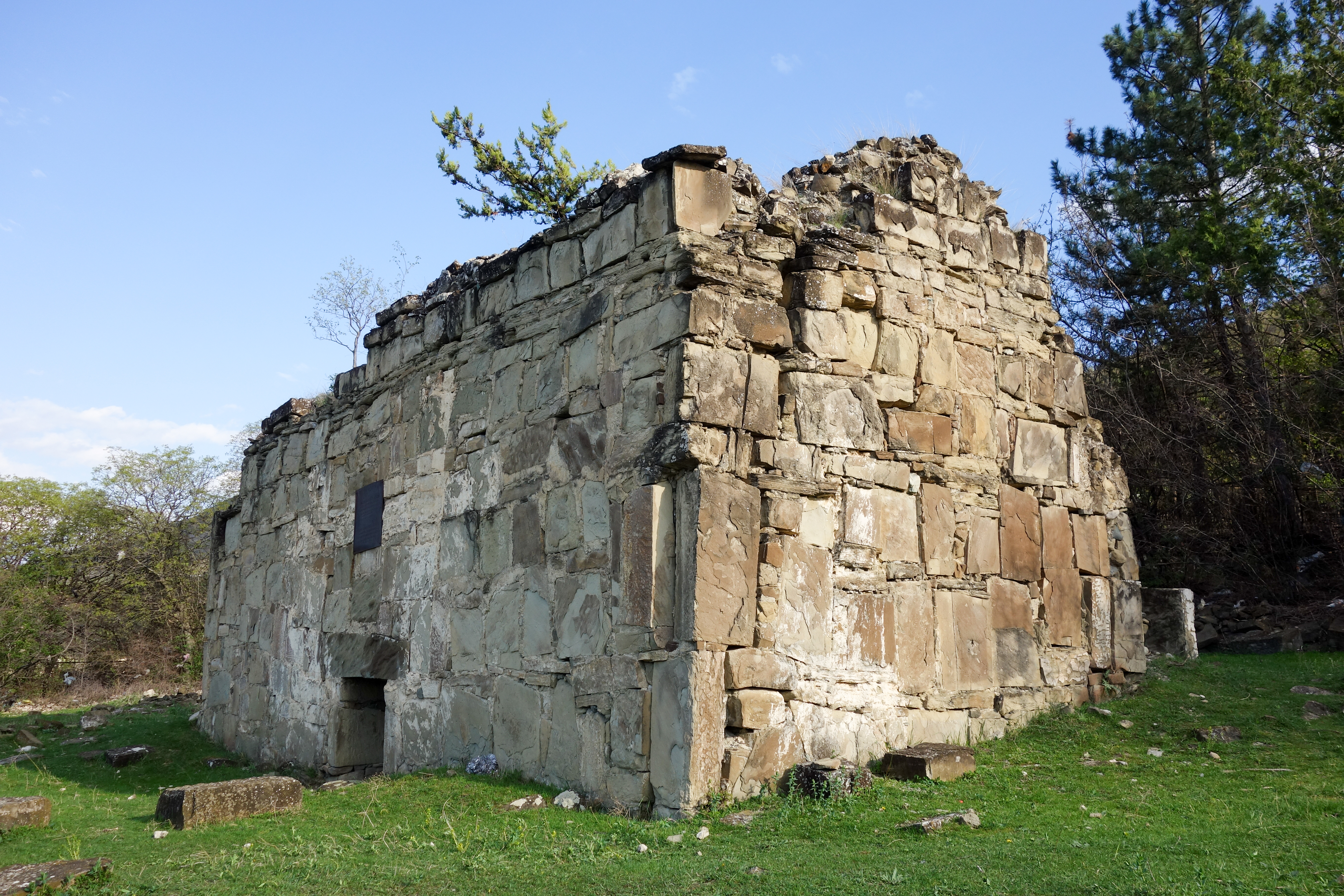 Mother of God Church (XVII c.), Dzegvi, Mtskheta-Mtianeti, Georgia